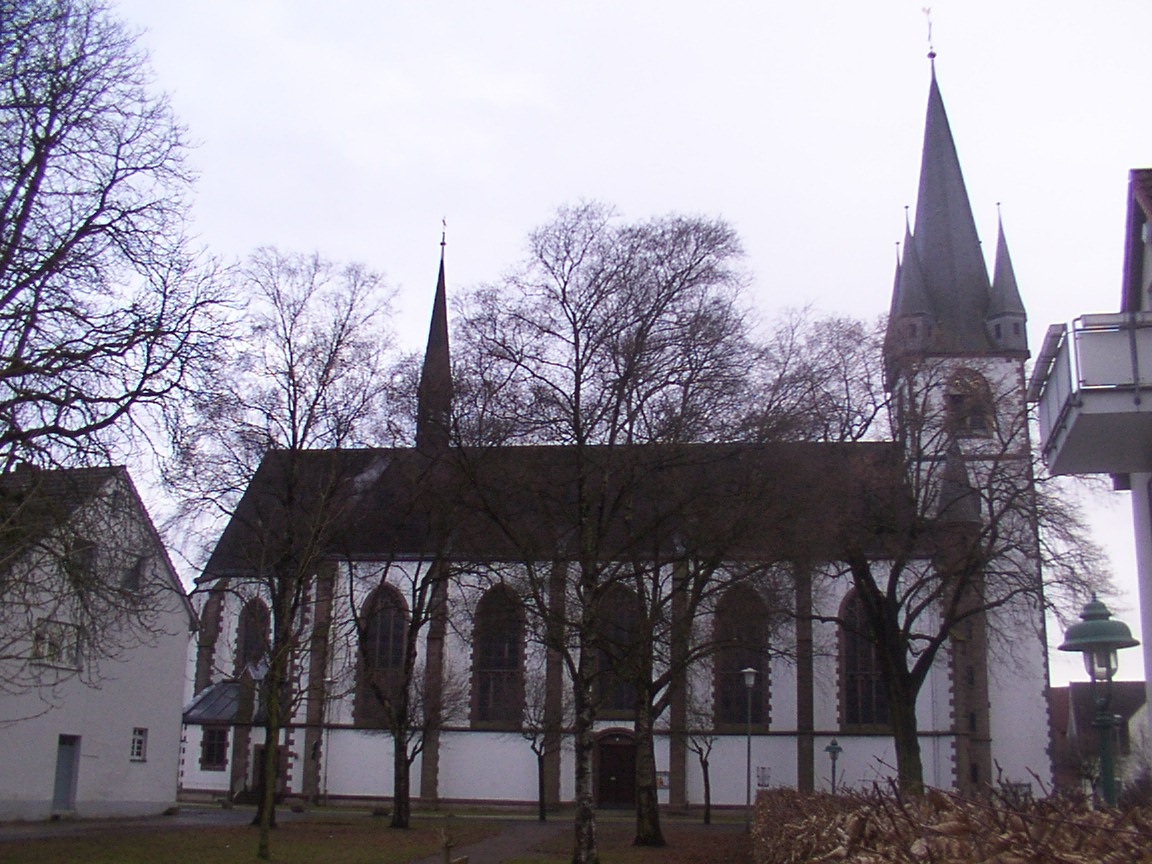 Bad Lippspringe: Catholic church Saint Martin